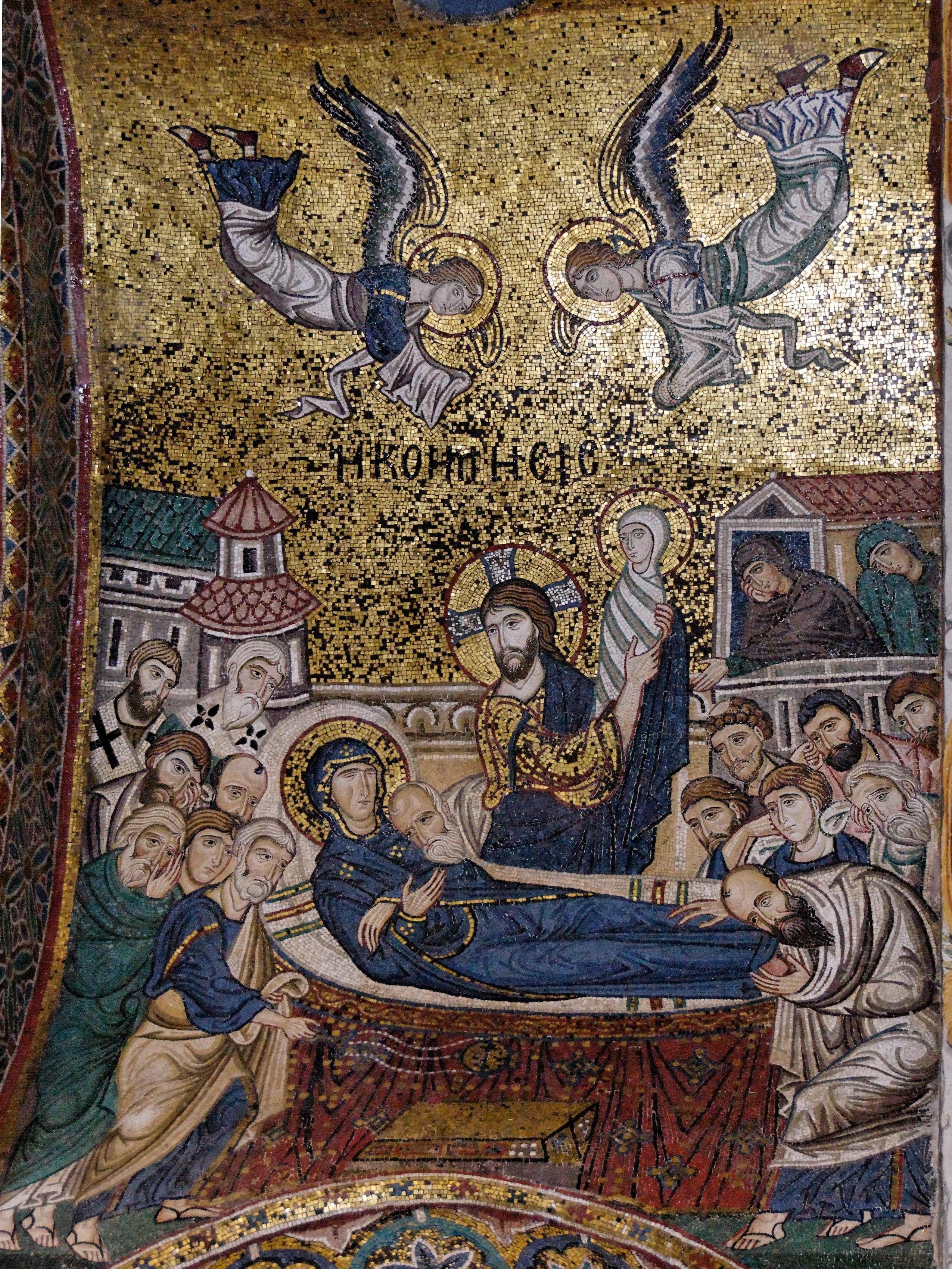 Dormition of the Virgin. 12th-century mosaic on the barrel vault of the western cross arm of La Martorana, also known as Santa Maria dell'Ammiraglio in Palermo, Sicily.